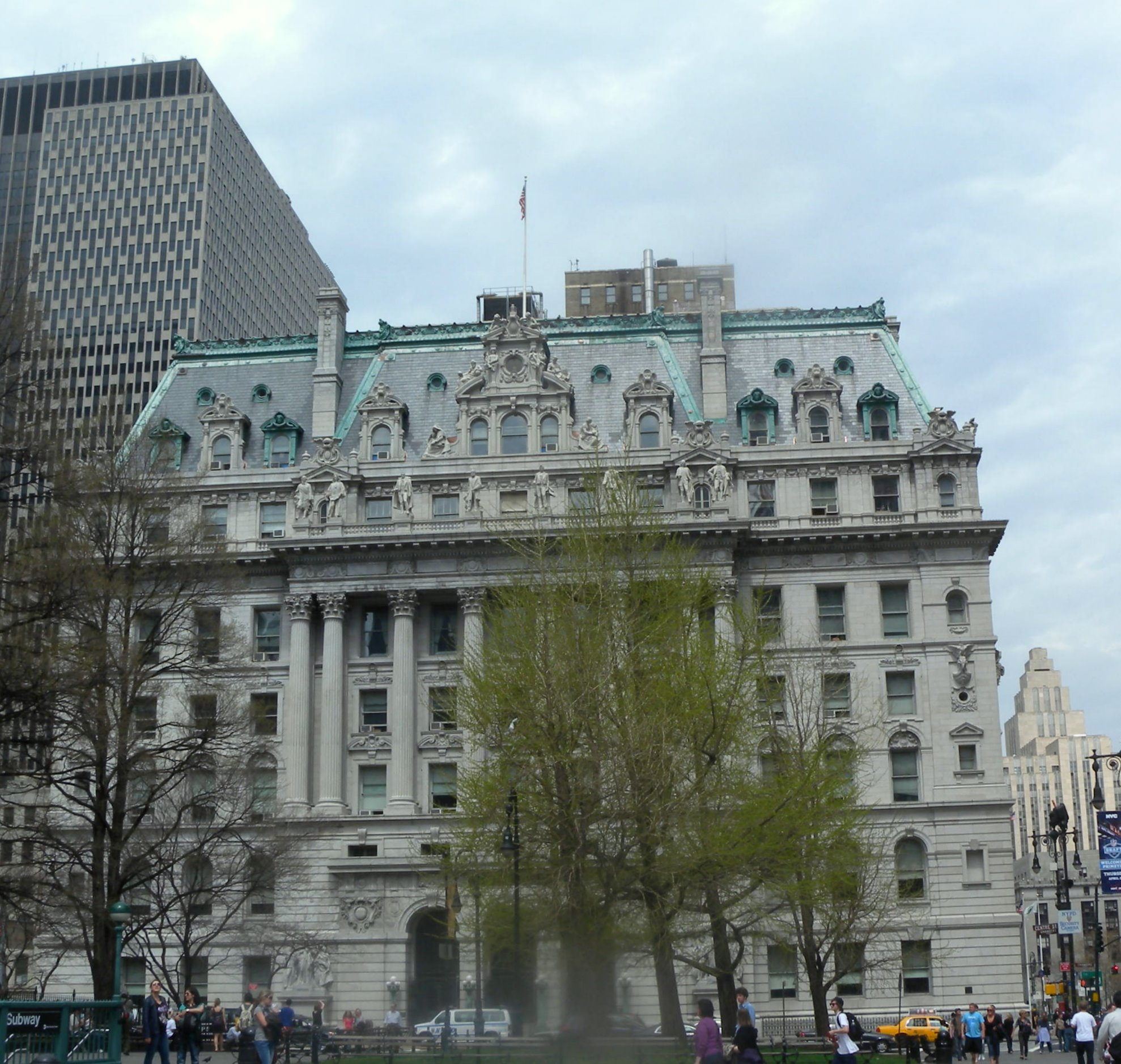 Looking north at Surrogates Courthouse and Hall of Records on a cloudy midday.